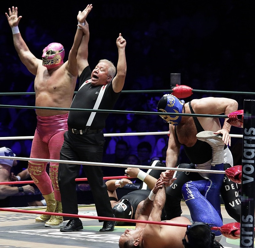 Viernes 30 de noviembre de 2018Arena México, ceremonia de develación de la placa conmemorativa por el reciente decreto de la Lucha Libre como Patrimonio Cultural Intangible de la Ciudad de México, estuvieron presentes autoridades del Consejo Mundial de Lucha Libre, y autoridades del gobierno de la CMDX, entre ellos Gabriela López Torres, coordinadora de Patrimonio Histórico Artístico y Cultural de la Secretaría de Cultura de la CDMX, además de invitados especiales.Fotografía: Tania Victoria/ Secretaría de Cultura CDMX